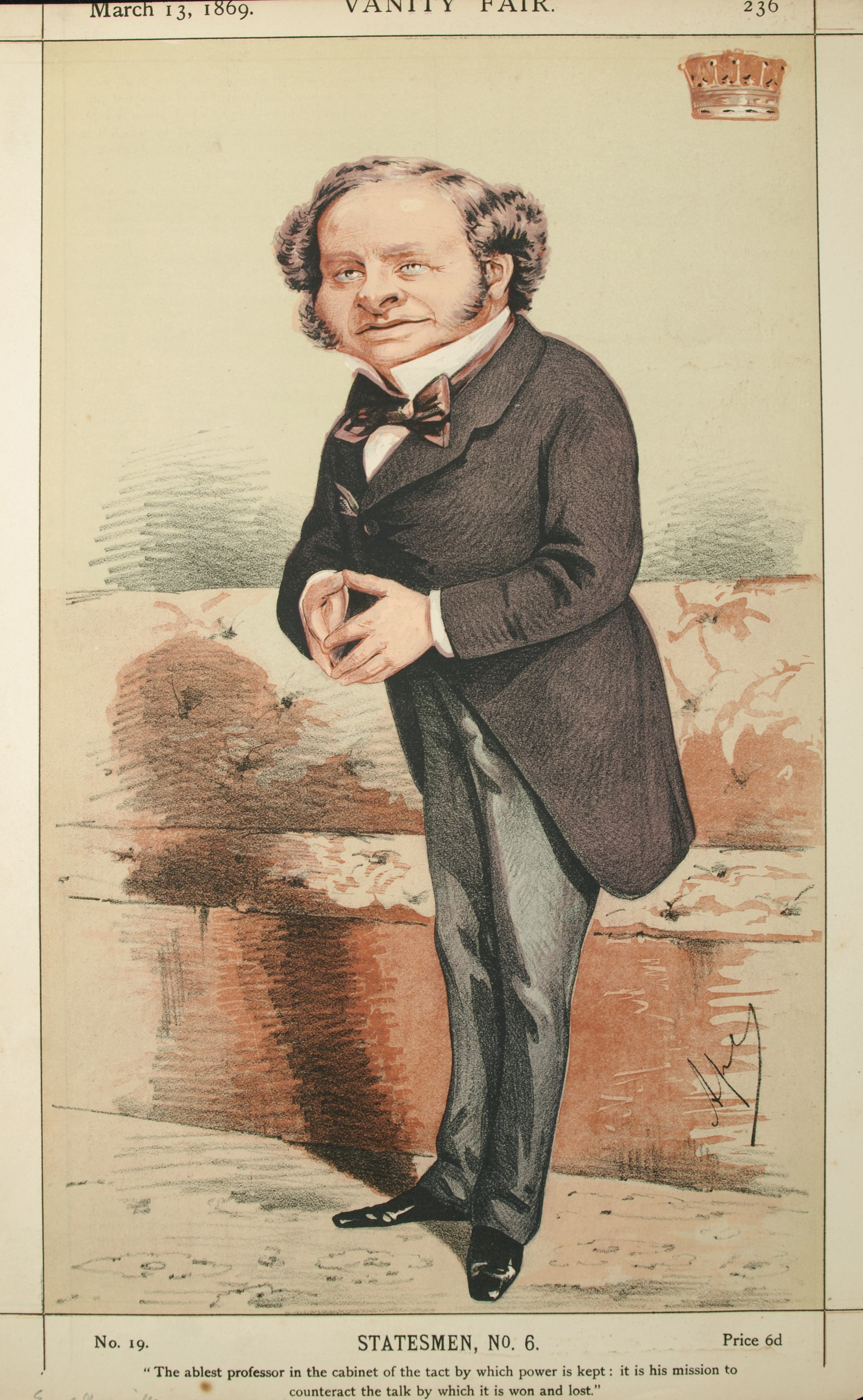 Statesmen No.6: Caricature of Lord Granville. Caption reads: "The ablest professor in the cabinet of the tact by which power is kept: it is his mission to counteract the talk by which it is won and lost."